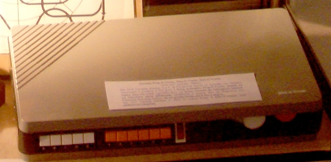 Zanussi/Sèleco Play-O-Tronic Cropped from Video Games History Exhibition Camera: Casio EX-Z55 License on Flickr (2011-02-07): CC-BY-2.0